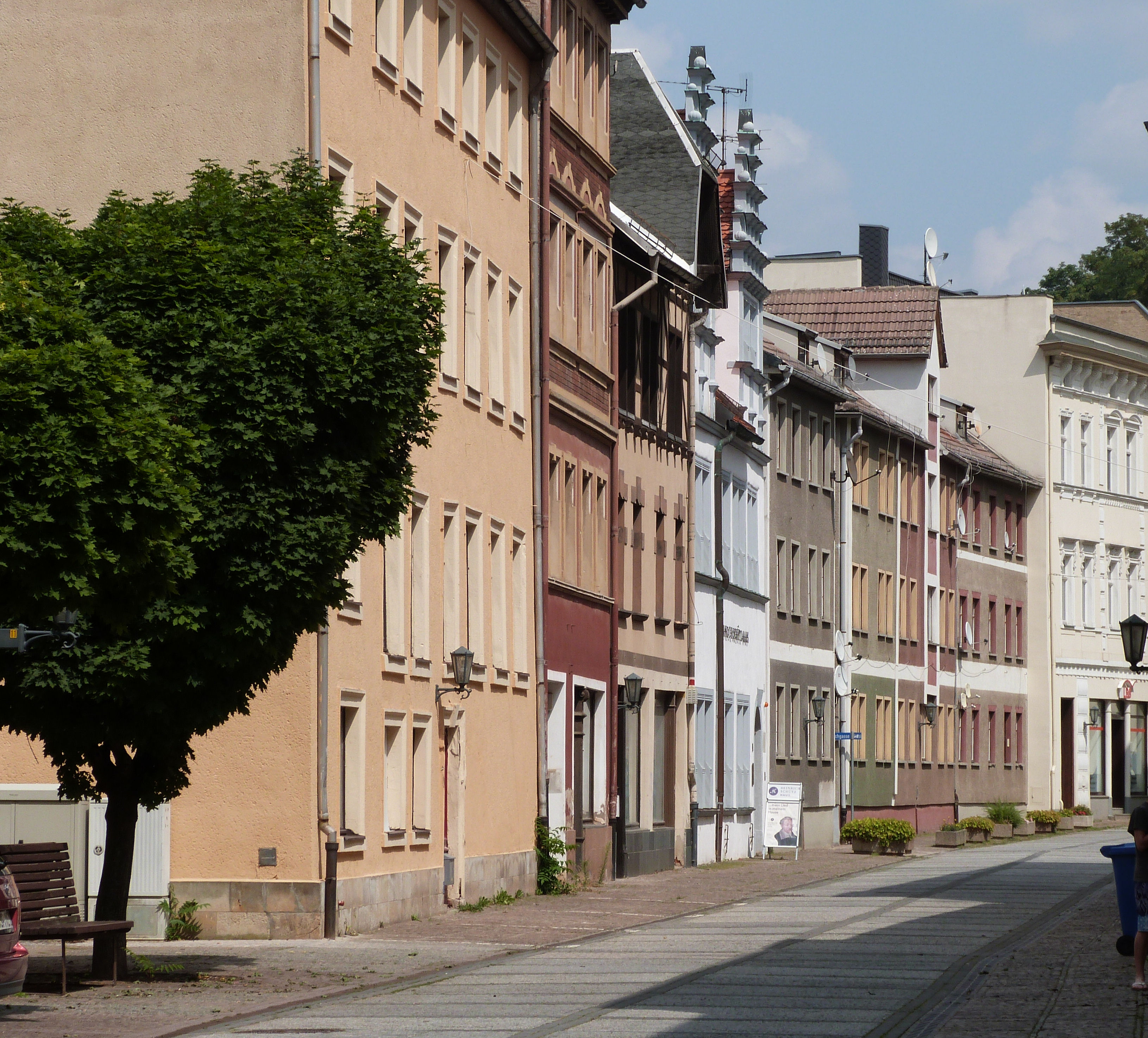 Street Nikolaistraße, Weissenfels, Saxony-Anhalt